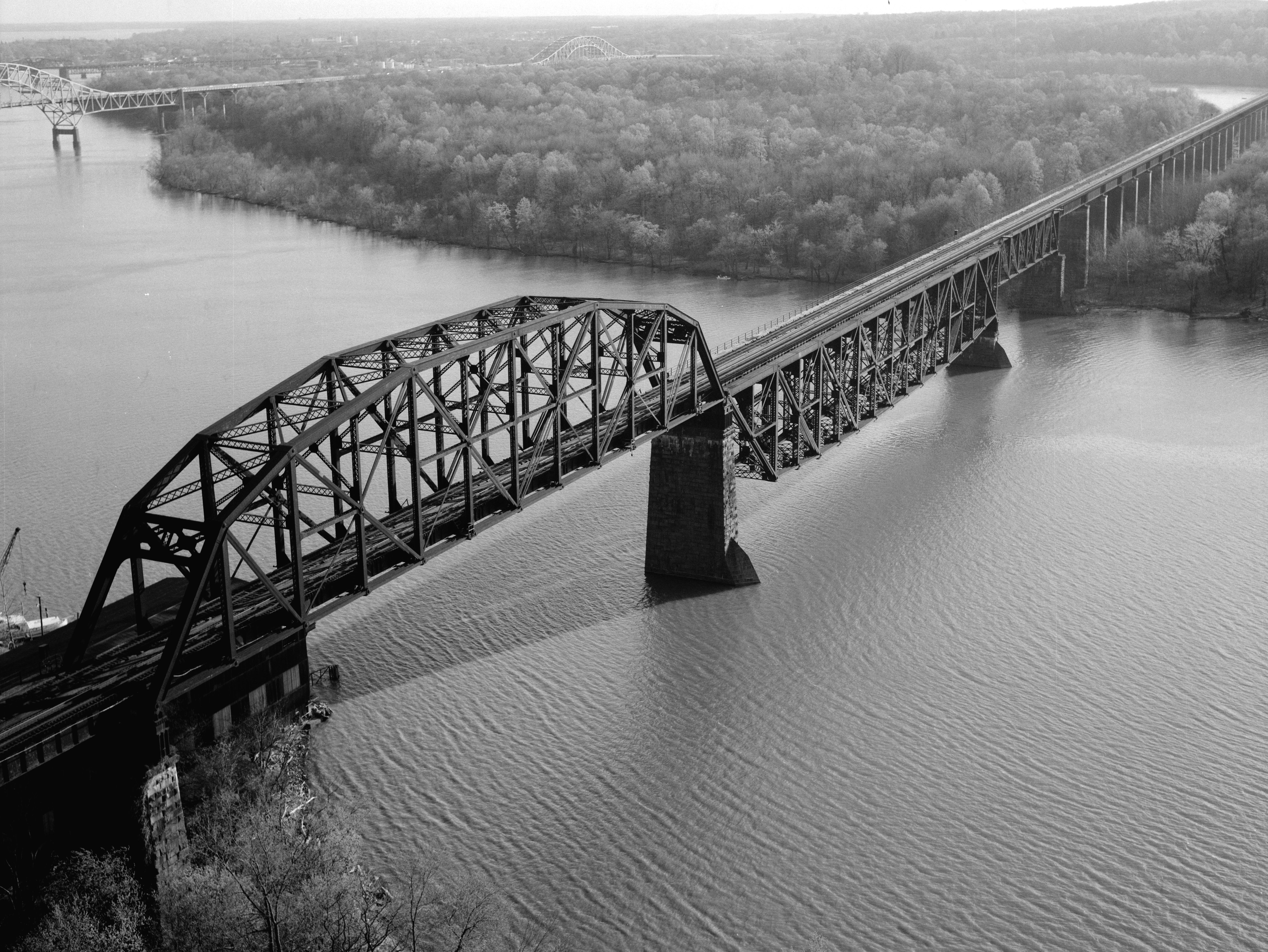 Perryville Railroad Bridge (a.k.a. CSX Susquehanna River Bridge), across the Susquehanna River, between Perryville, Maryland and Havre de Grace, Maryland. Built by the Baltimore and Philadelphia Railroad, a subsidiary of the Baltimore and Ohio Railroad, in 1908.